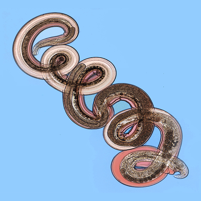 A gravid adult female Nippostrongylus brasiliensis worm was collected from the small intestine of an infected BALB/c mouse and photographed with a Nikon light microscope and mounted digital camera. The picture shows a hooked anterior end containing eggs. See Nieuwenhuizen et al.